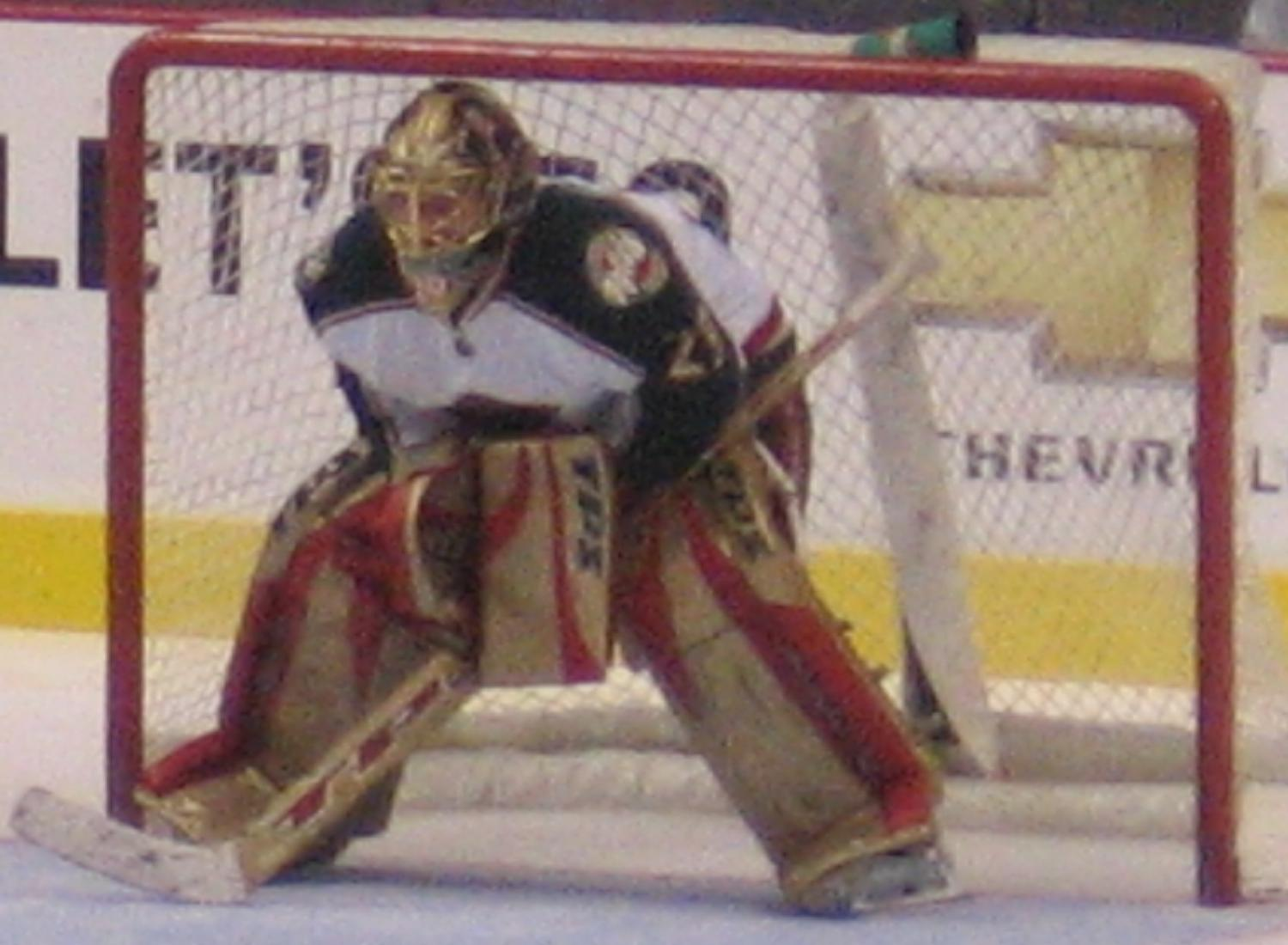 Josh Harding, goaltender for the Minnesota Wild, warming up at GM Place before playing the Vancouver Canucks on November 16th, 2007.